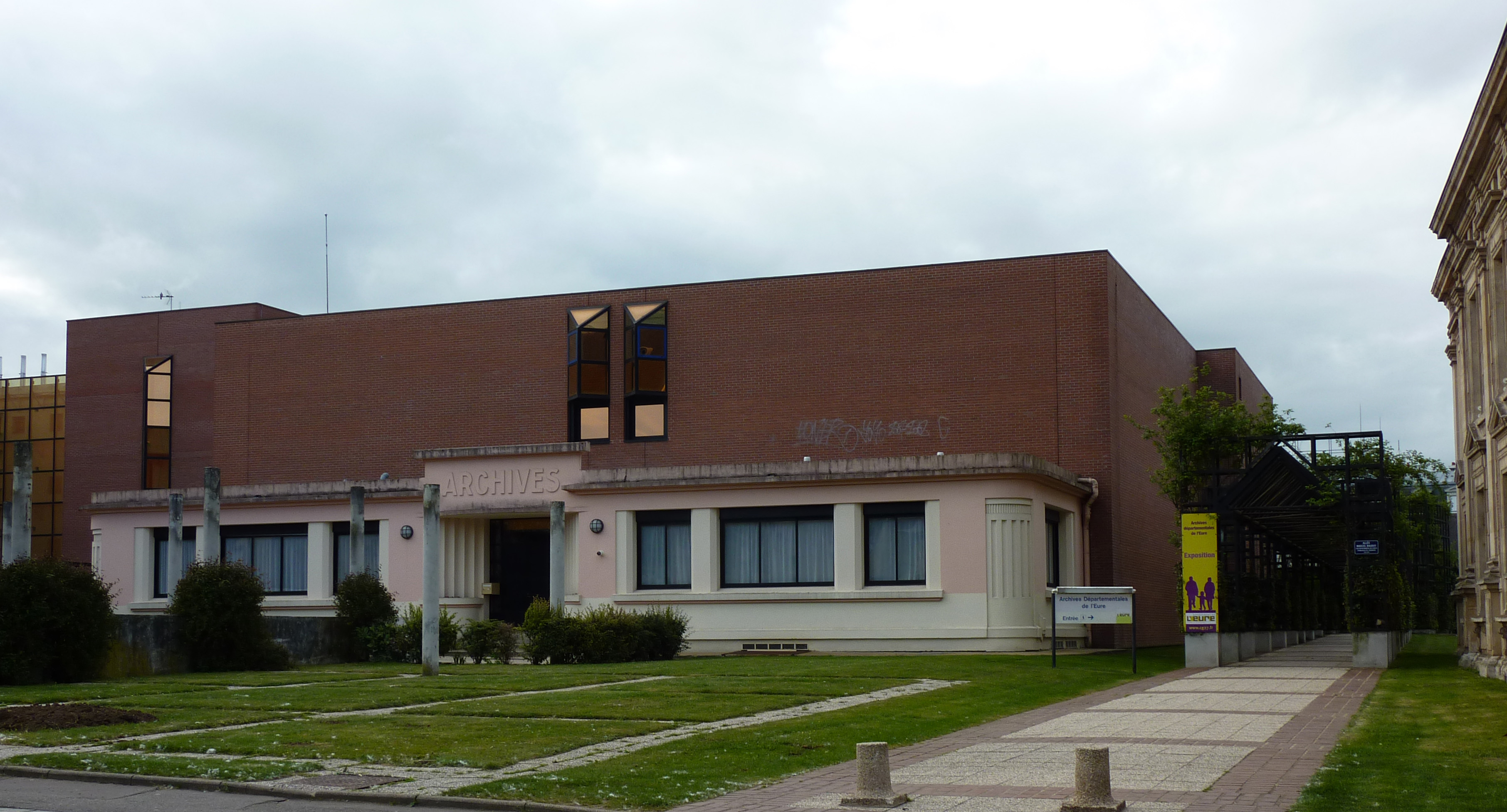 Front facade of the Archives départementales de l'Eure